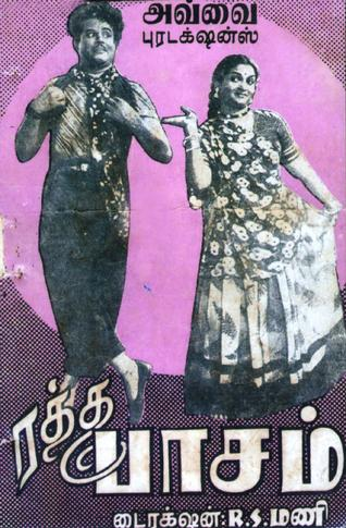 Advertising poster of Tamil film Ratha Paasam (1954)